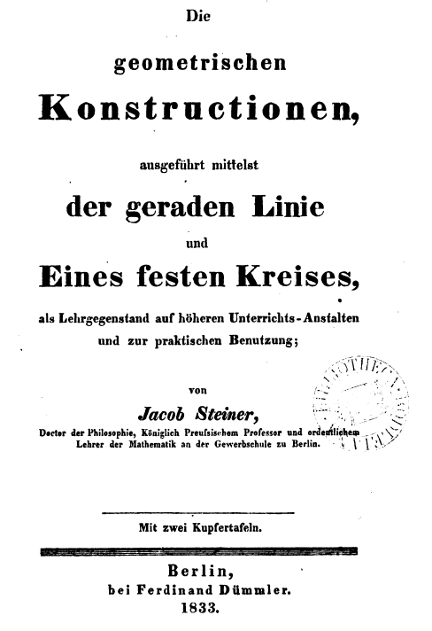 Frontispice Steiner's Geometrische Constructionen